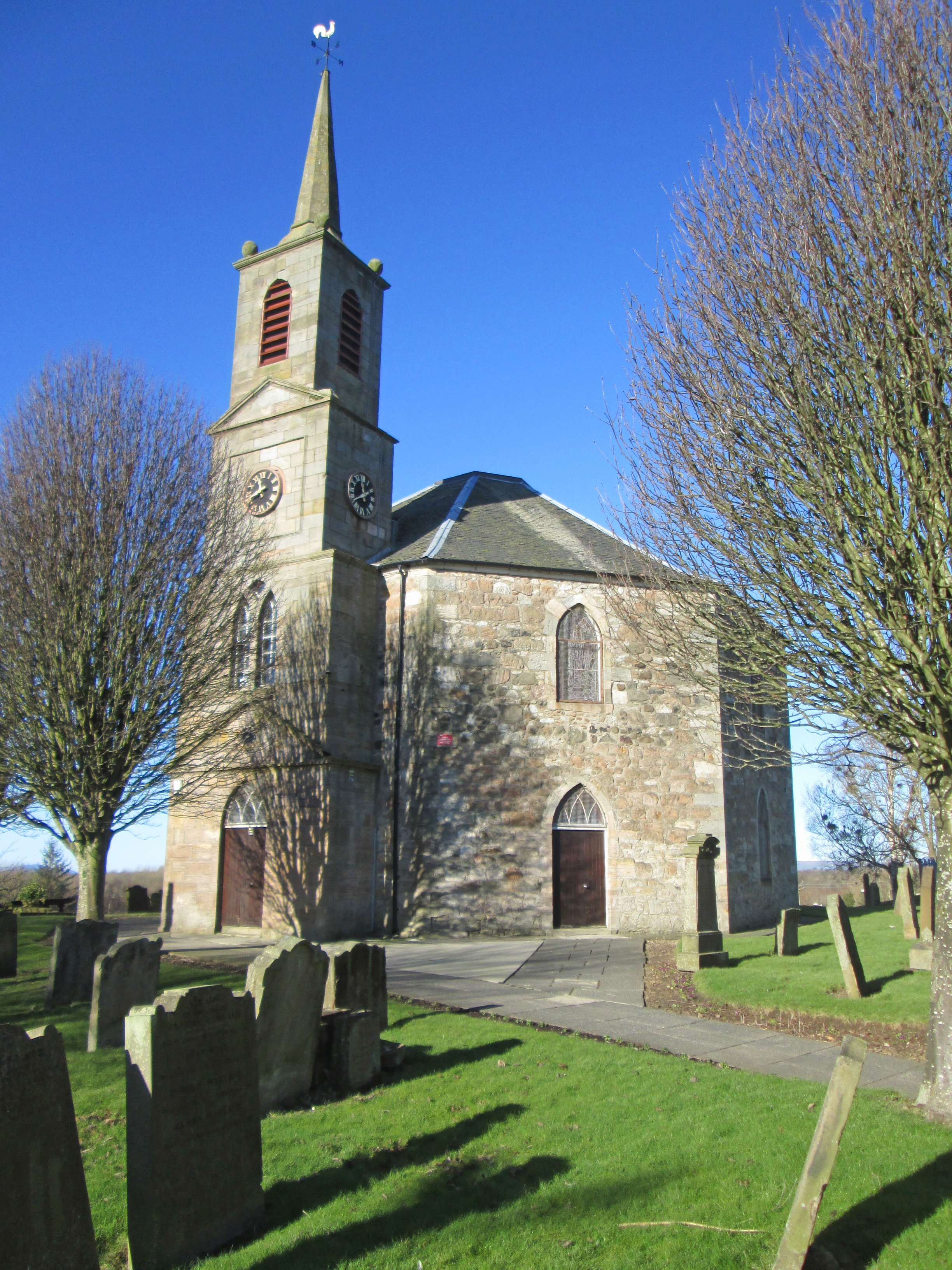 Dreghorn and Springside Parish Church and the village cemetery